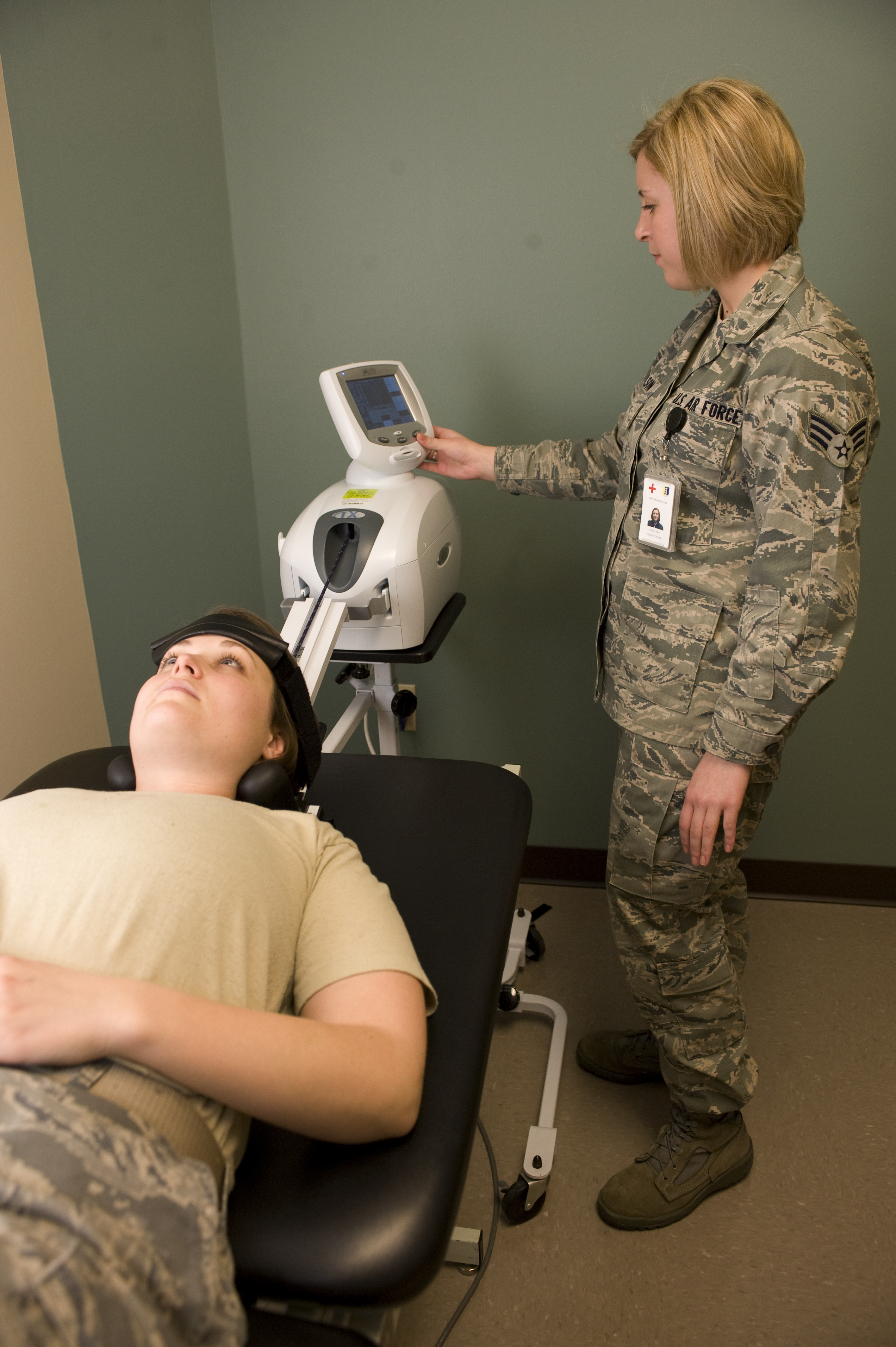 Senior Airman Haylley Carlson, 28th Medical Operations Squadron physical therapy technician, operates the cervical traction machine on Staff Sgt. Janet Schreiber, 28th Maintenance Squardon aircraft structural maintainer, at the physical therapy center on Ellsworth Air Force Base, S.D., Jan. 26, 2012. The cervical traction treatment is designed to be painless and ranges in duration depending on patient’s injuries.